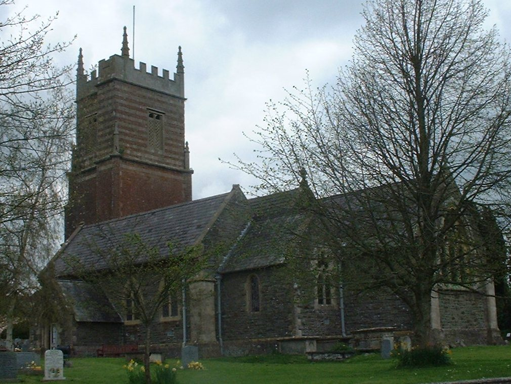 Church at Clutton Taken by Rod Ward 27th April 2006. The church is dedicated to St Augustine of Hippo. It dates from around 1190, but has had several major restorations. The tower is made of red sandstone with diagonal buttresses ending in pinnacles and probably dates from 1726. The tower contains two bells dating from 1734, made by Thomas Bilbie of the Bilbie family. The church is a Grade II* listed building. Two railed tomb enclosures within the Broadribb family plot are also listed as Grade II, as are a group of three Broadribb and Purnell monuments. The church is currently under a small amount of renovation.